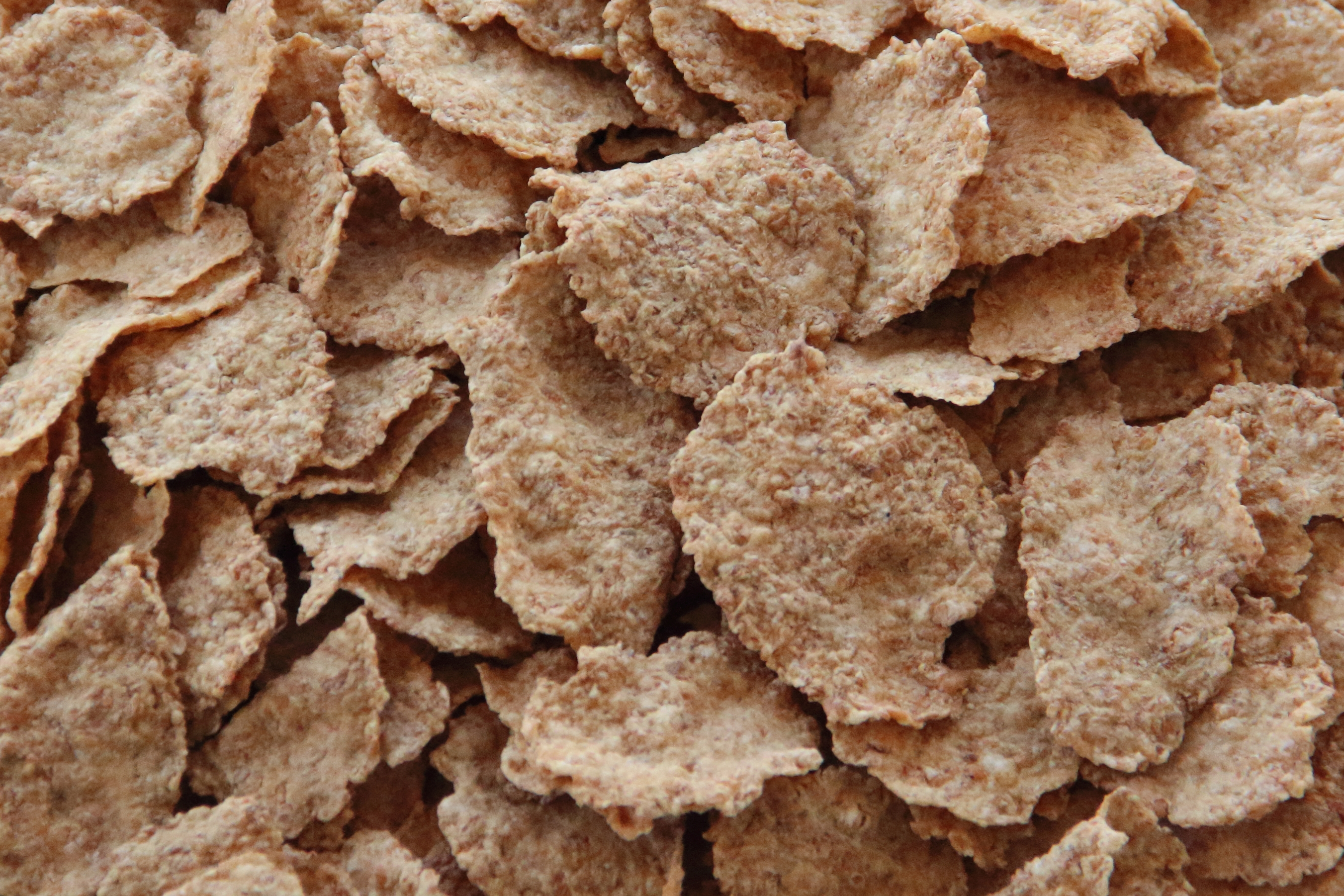 Total cereal flakes detail